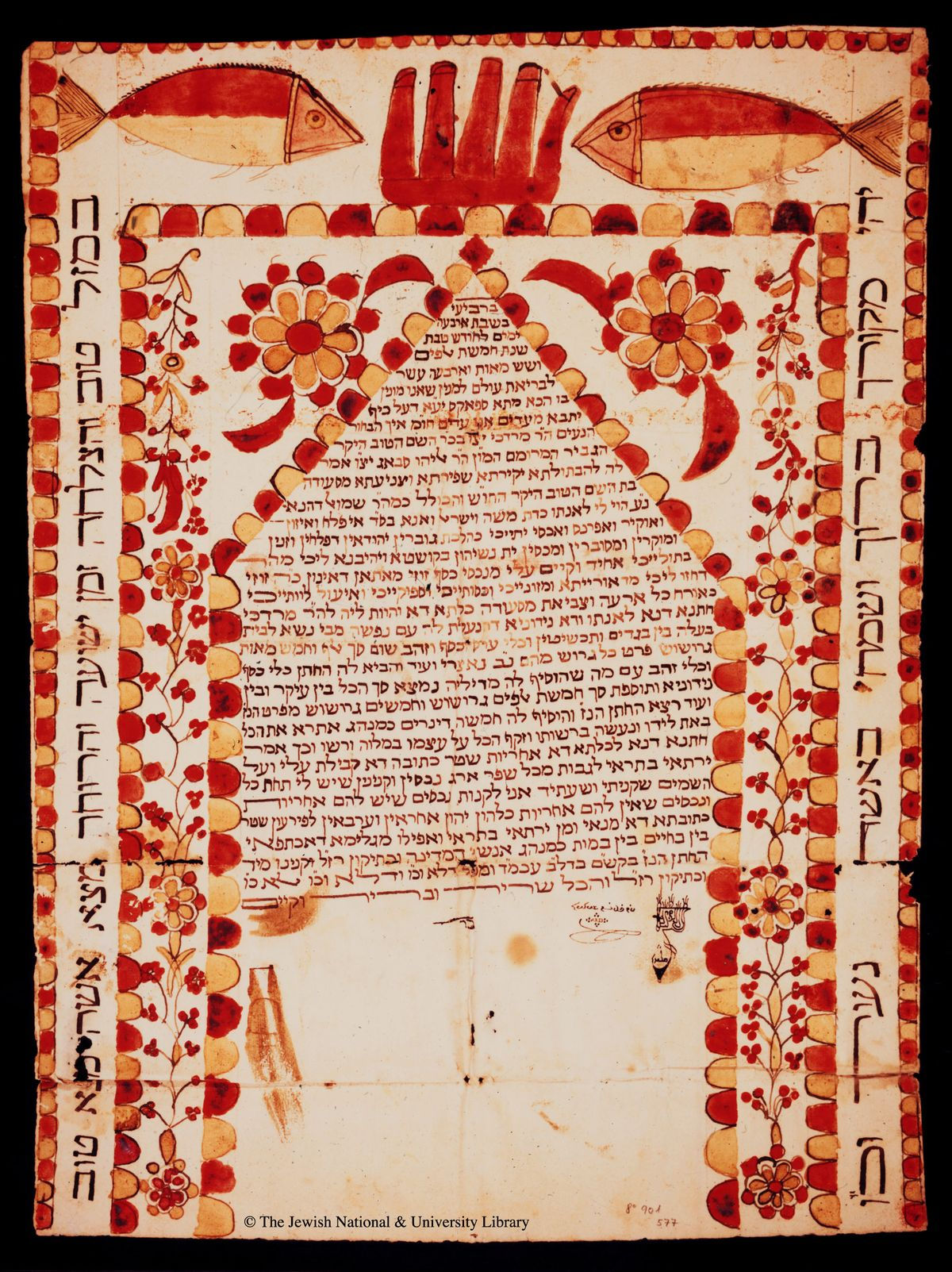 Ketubbot from the Ketubbot Collection of the National Library of Israel